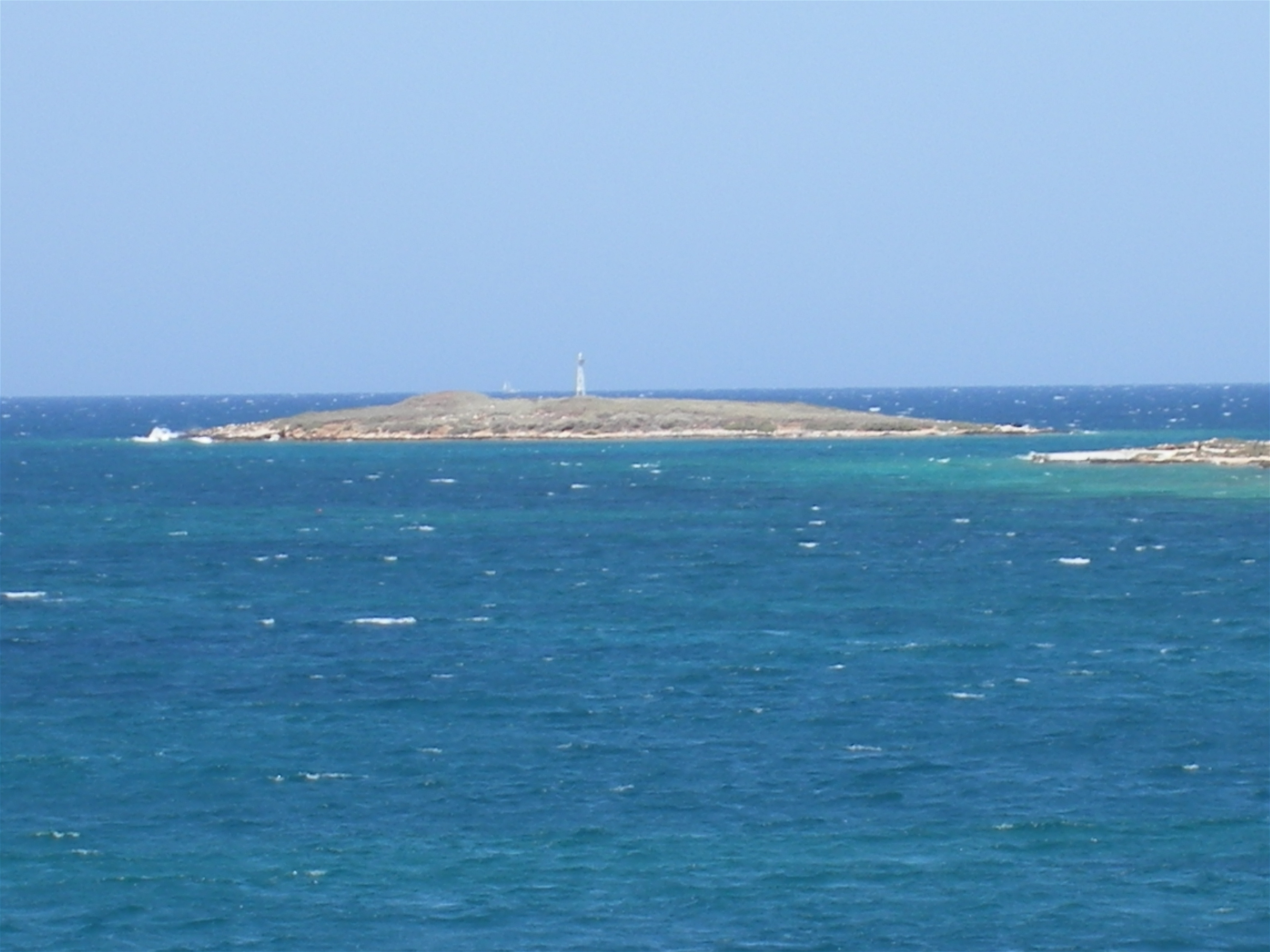 Islet between Paros and Antiparos where a neolithic settlement datant back to the 5th millenium B.C.E was excavated